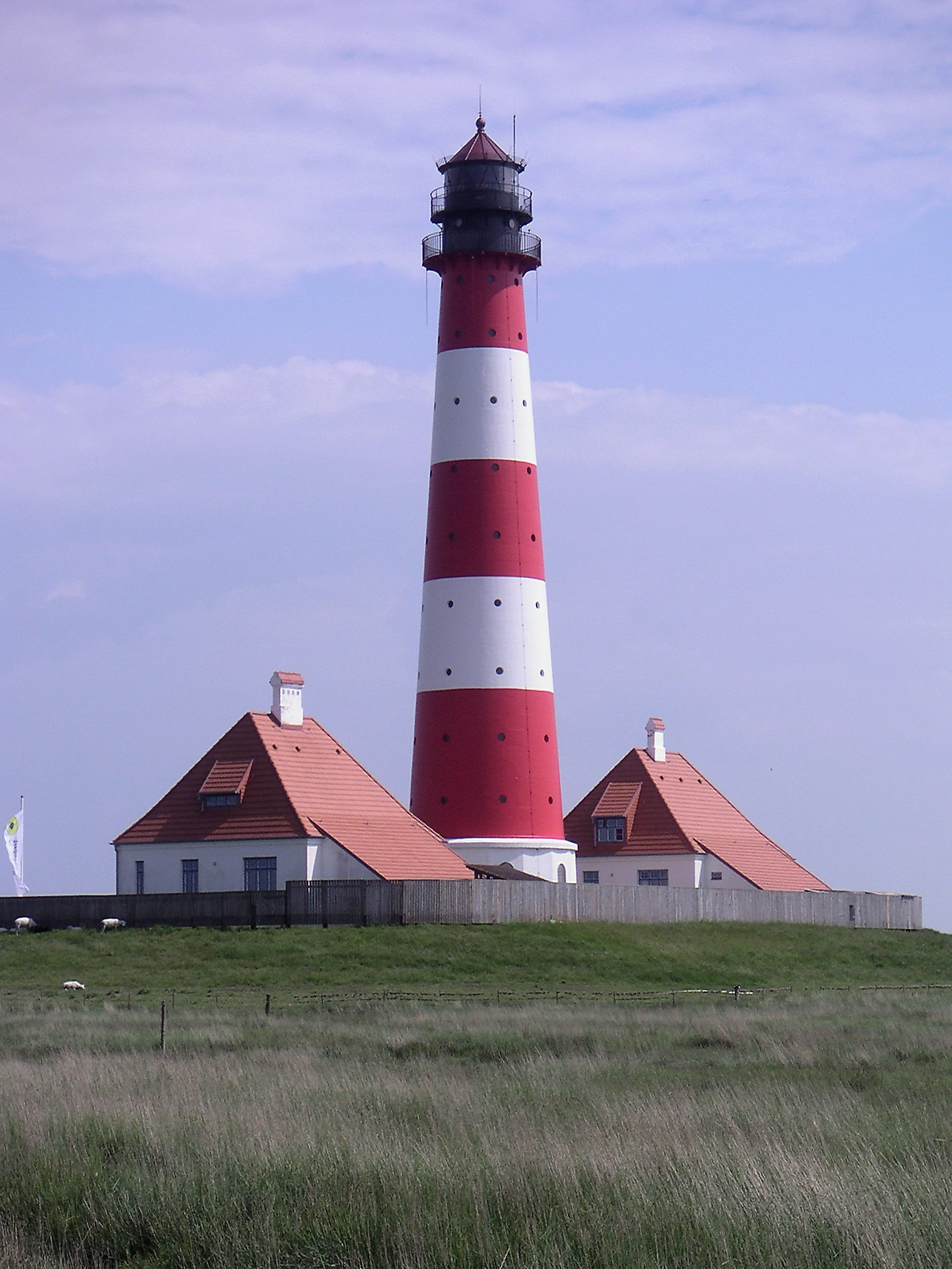 Lighthouse Westerhever